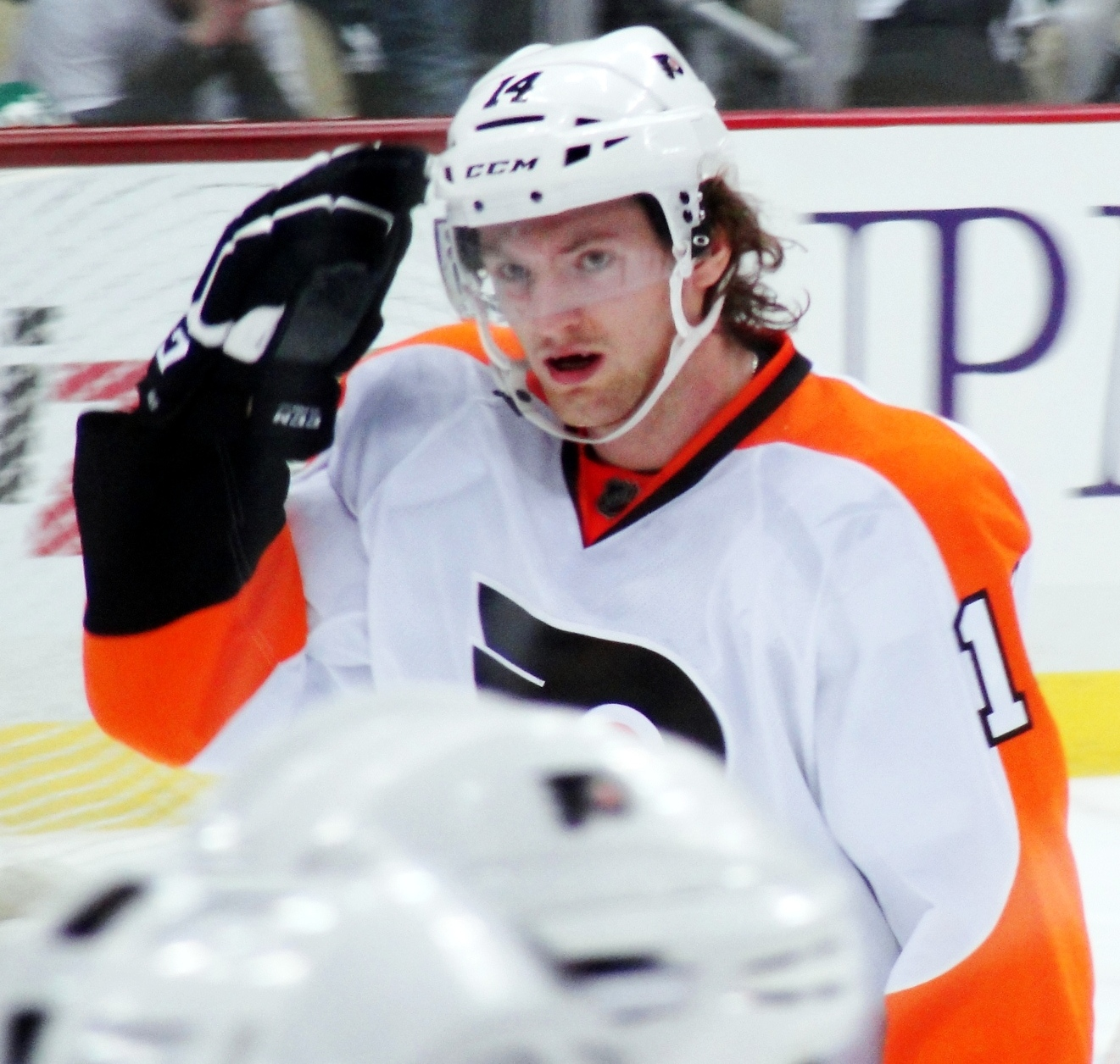 Philadelphia Flyers center Sean Couturier during a first round playoff game against the Pittsburgh Penguins, April 13, 2012 at Consol Energy Center in Pittsburgh, PA.